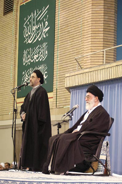 Mohmmad Khatami delivers speech in Imam Khomeini Hussiniyeh